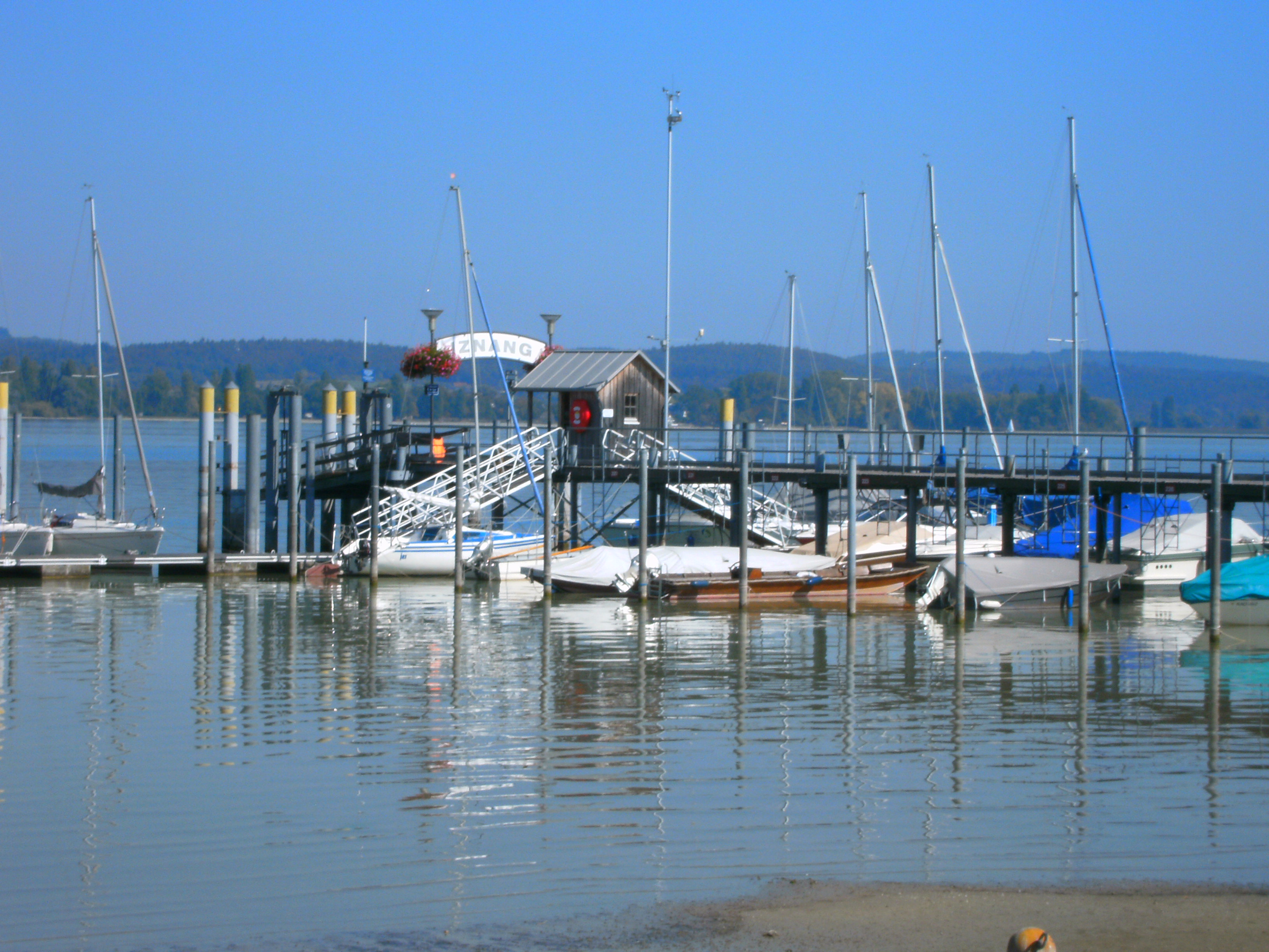 Moos (am Bodensee), Ortsteil Iznang in Germany. Landing stage near embankment and port.